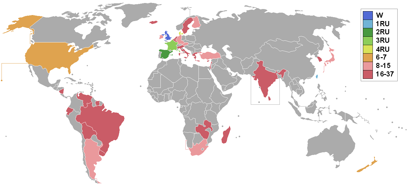 results map